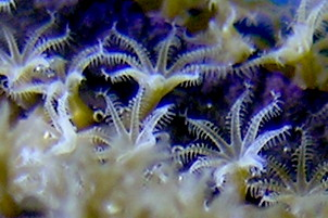 Gorgonian polyps. Photographed in the reef aquarium of aquarist Mike Giangrasso.